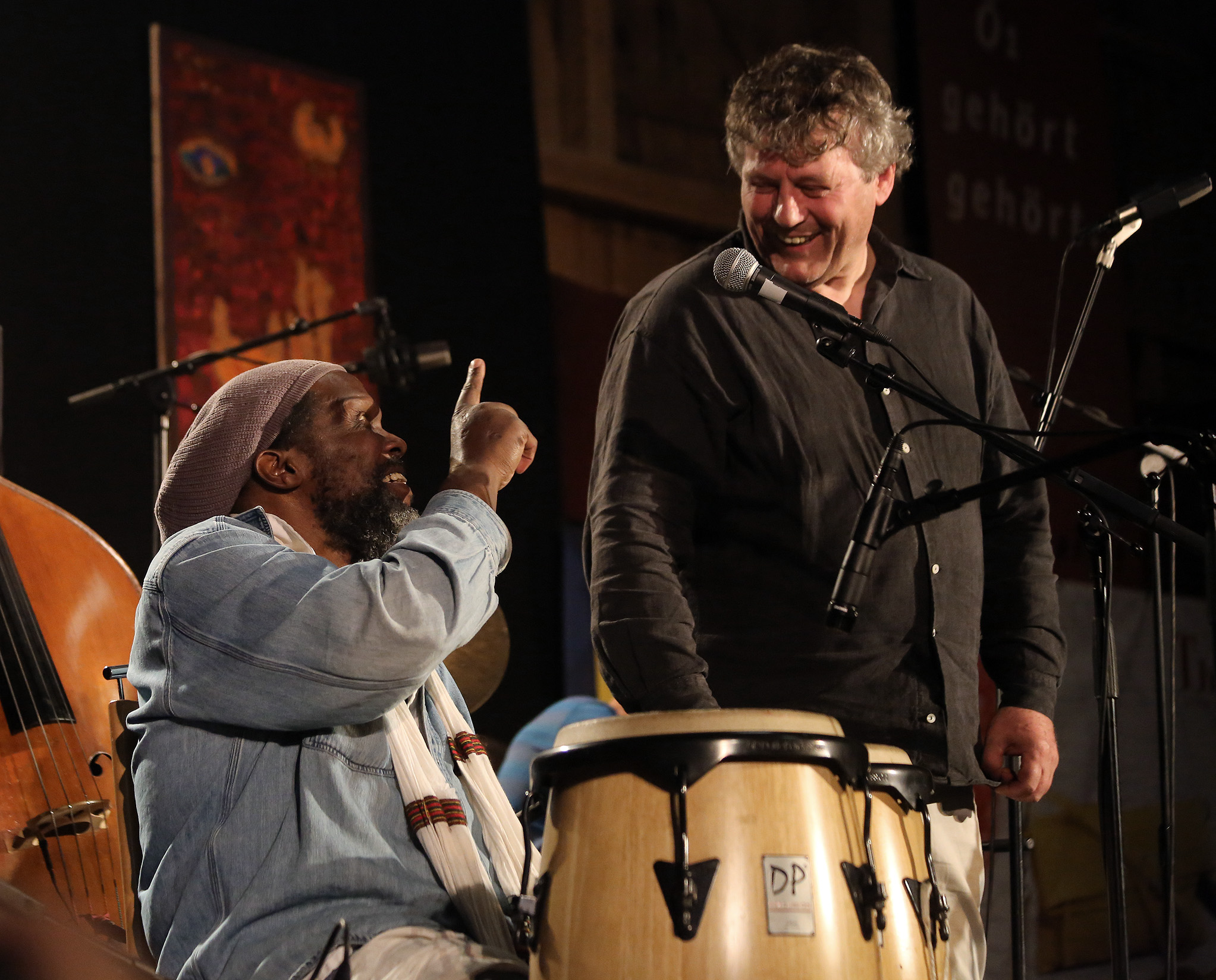 Paul Zauner - Mansur Scott (voc, perc), Howard Johnson (bar, tub, fl), Oliver Kent (p), Wolfram Derschmidt (b), Mark Johnson (dr) - INNtöne Jazzfestival (Diersbach, Upper Austria)